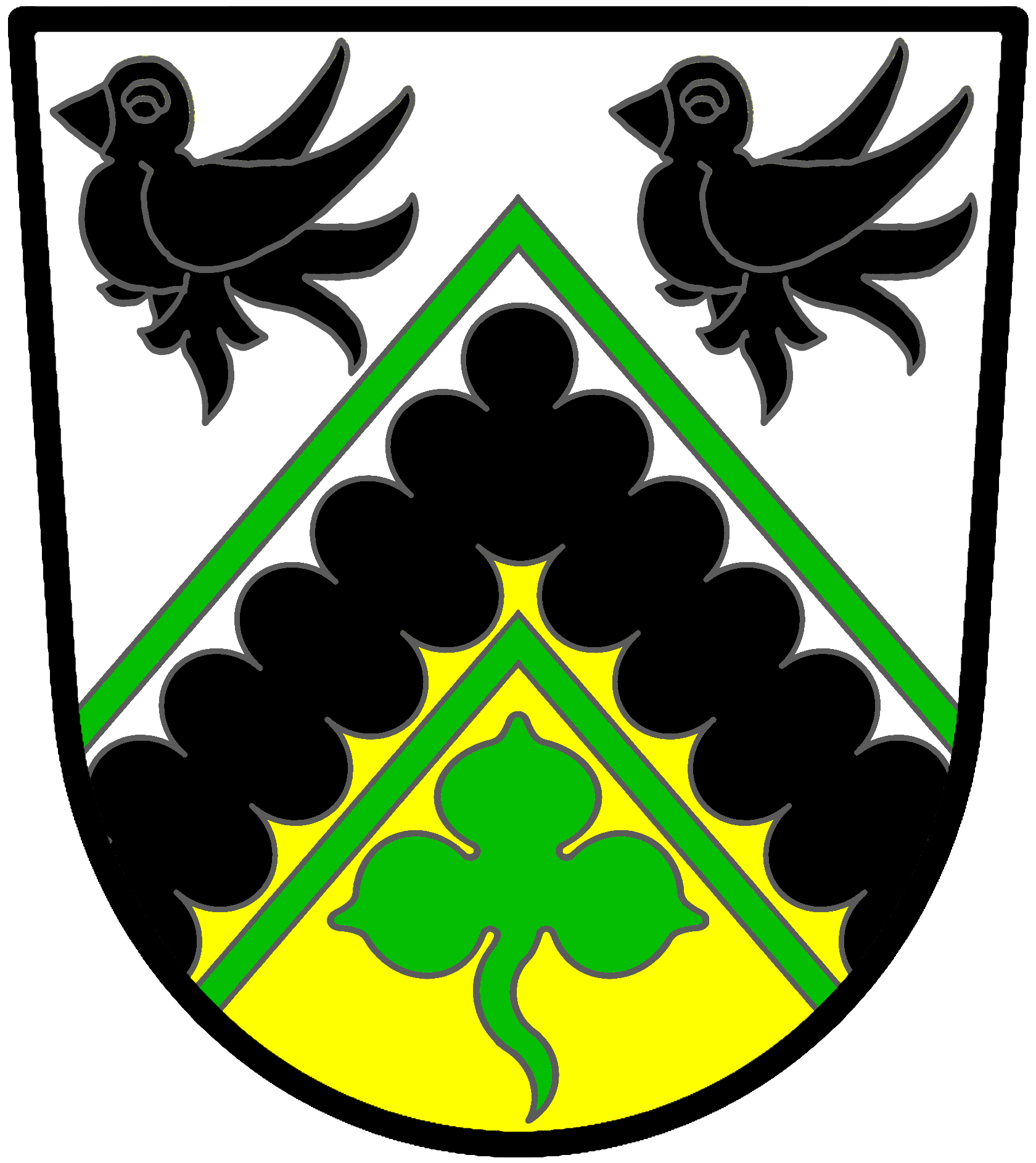 Coat of arms - Lawson, England Per chevron Argent and Or a chevron invected Sable plain cotised Vert between in chief two martlets of the third and in base a trefoil slipped of the fourth.